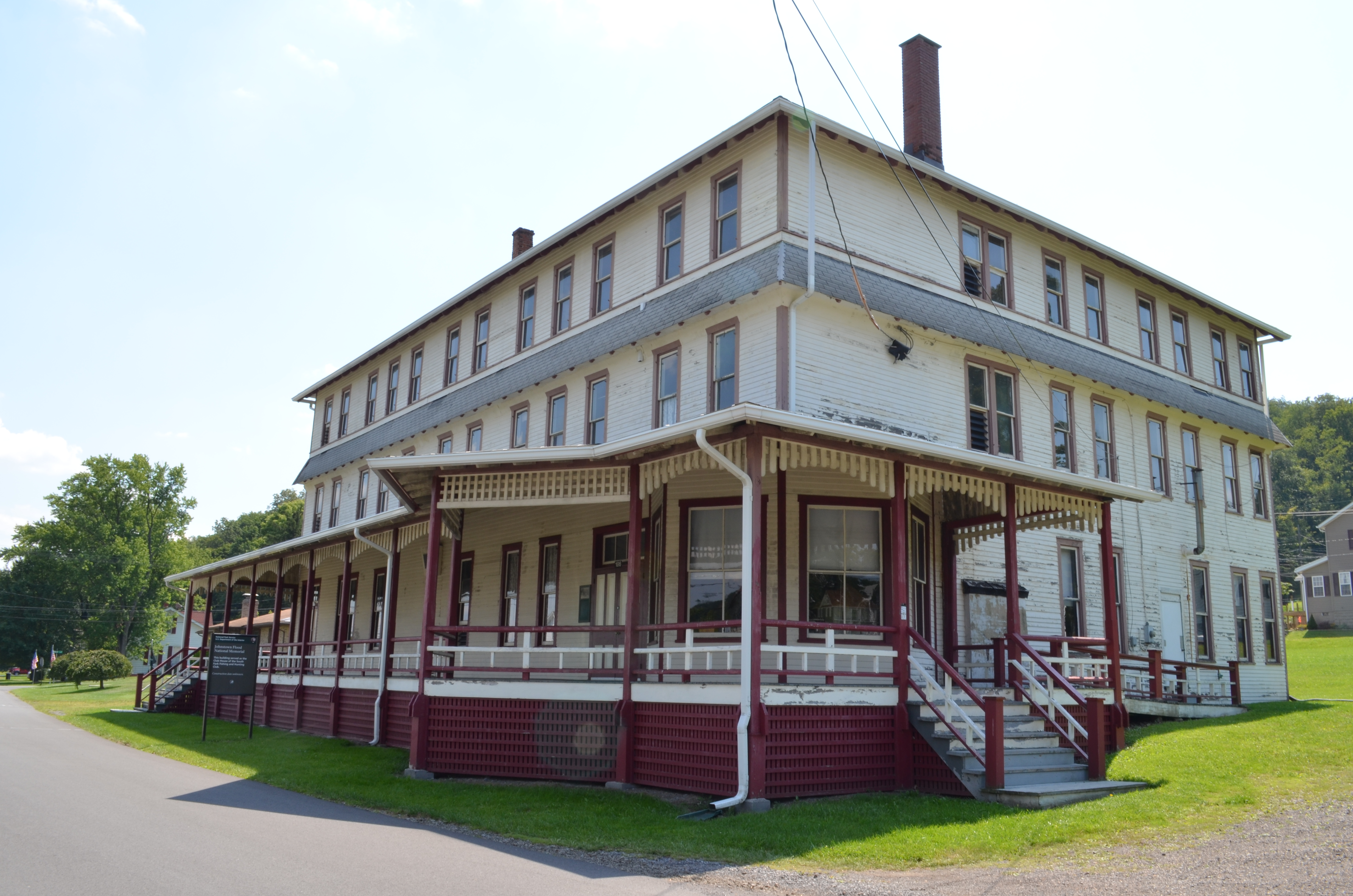 The clubhouse for the South Fork Fishing and Hunting Club in St. Michael Sidman, Pennsylvania. It is a contributing property to the South Fork Fishing and Hunting Club Historic District.